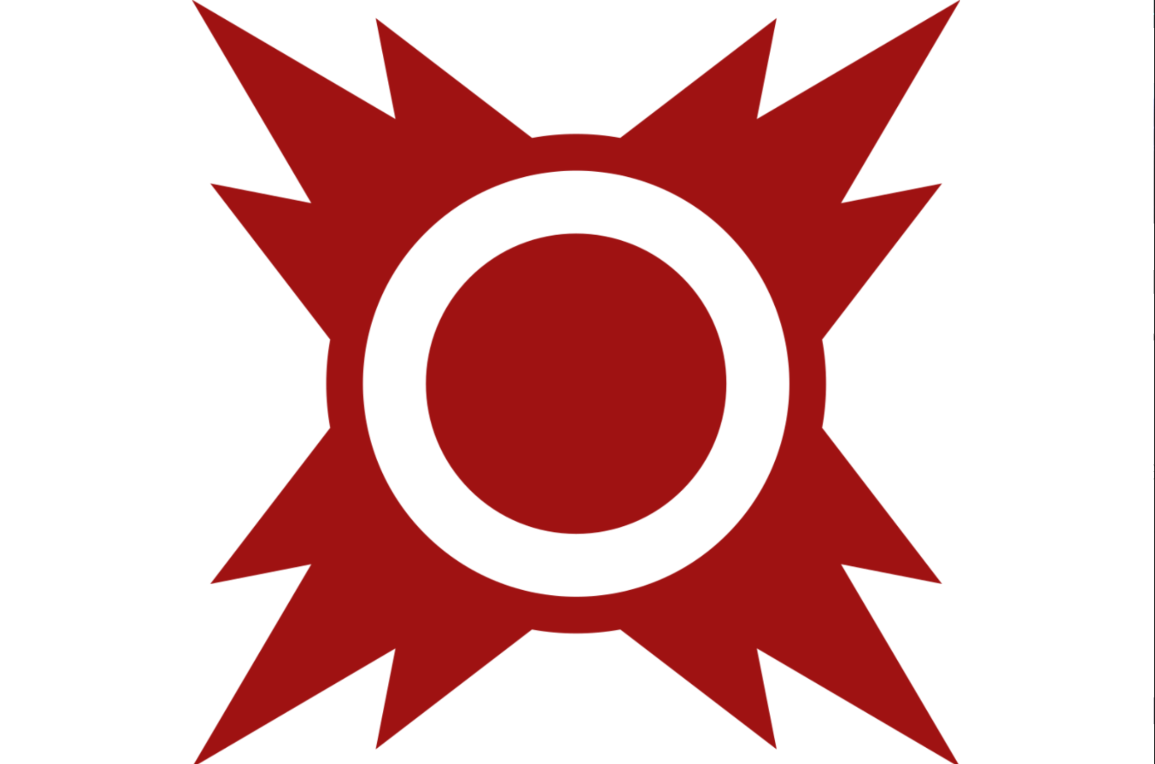 The seal of the Sith.